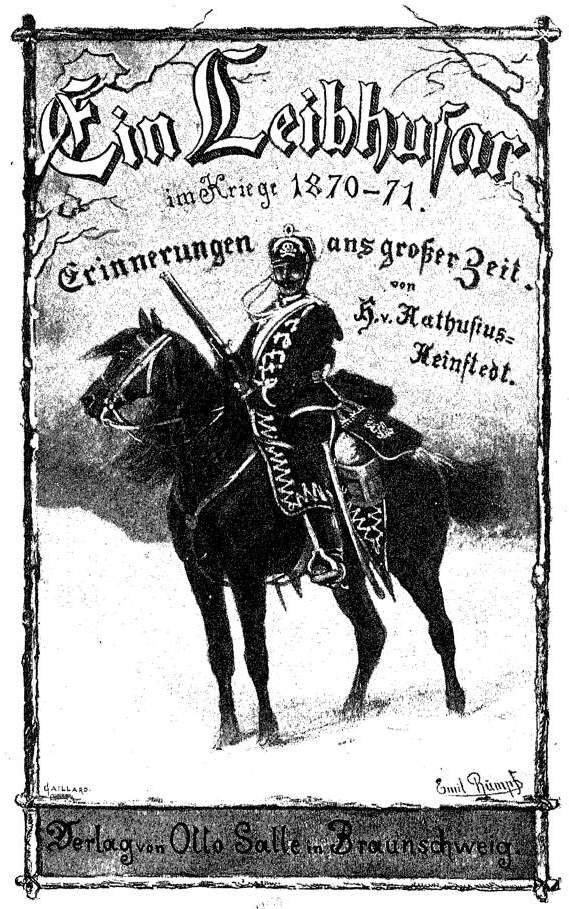 Book cover, Heinrich von Nathusius-Neinstedt, Ein Leibhusar im Kriege 1870-71